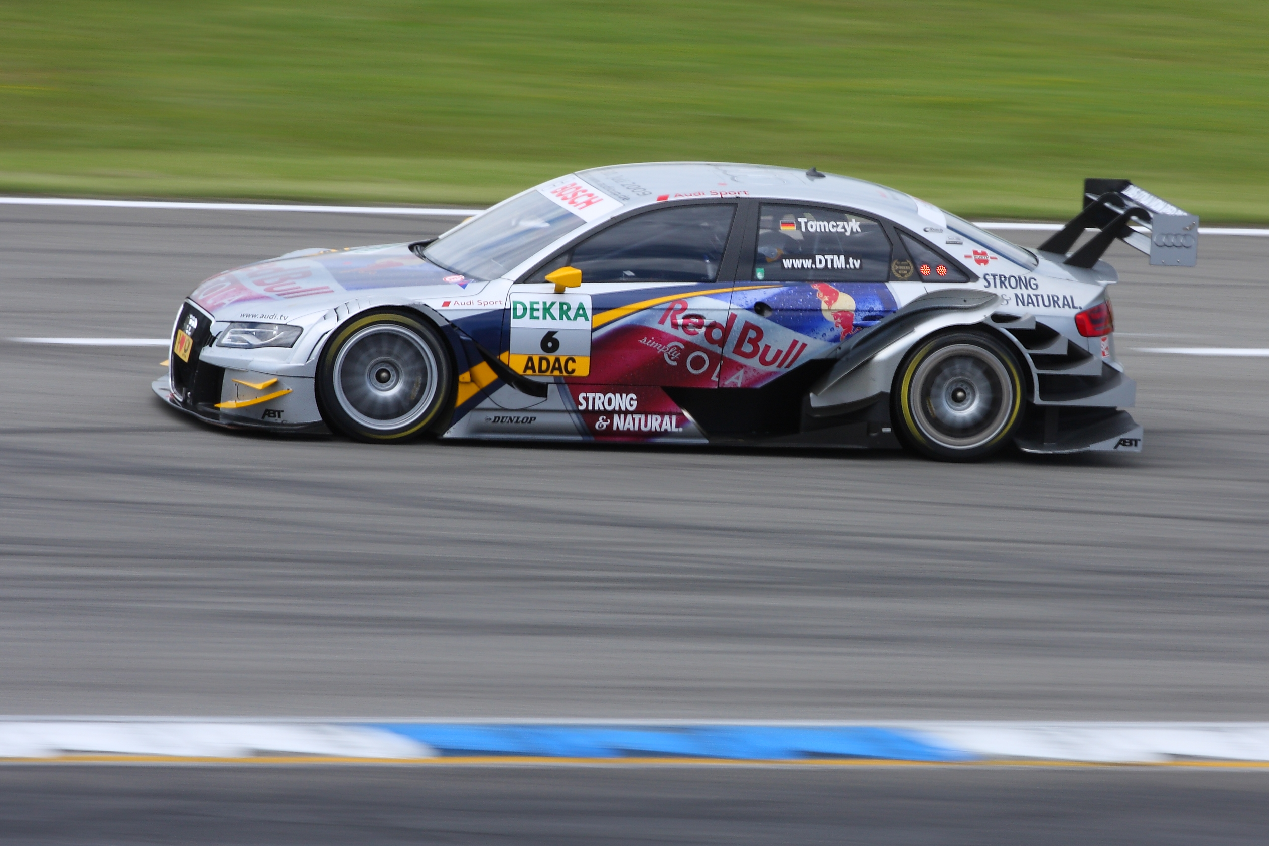 DTM Audi A4, Martin Tomczyk (driver)